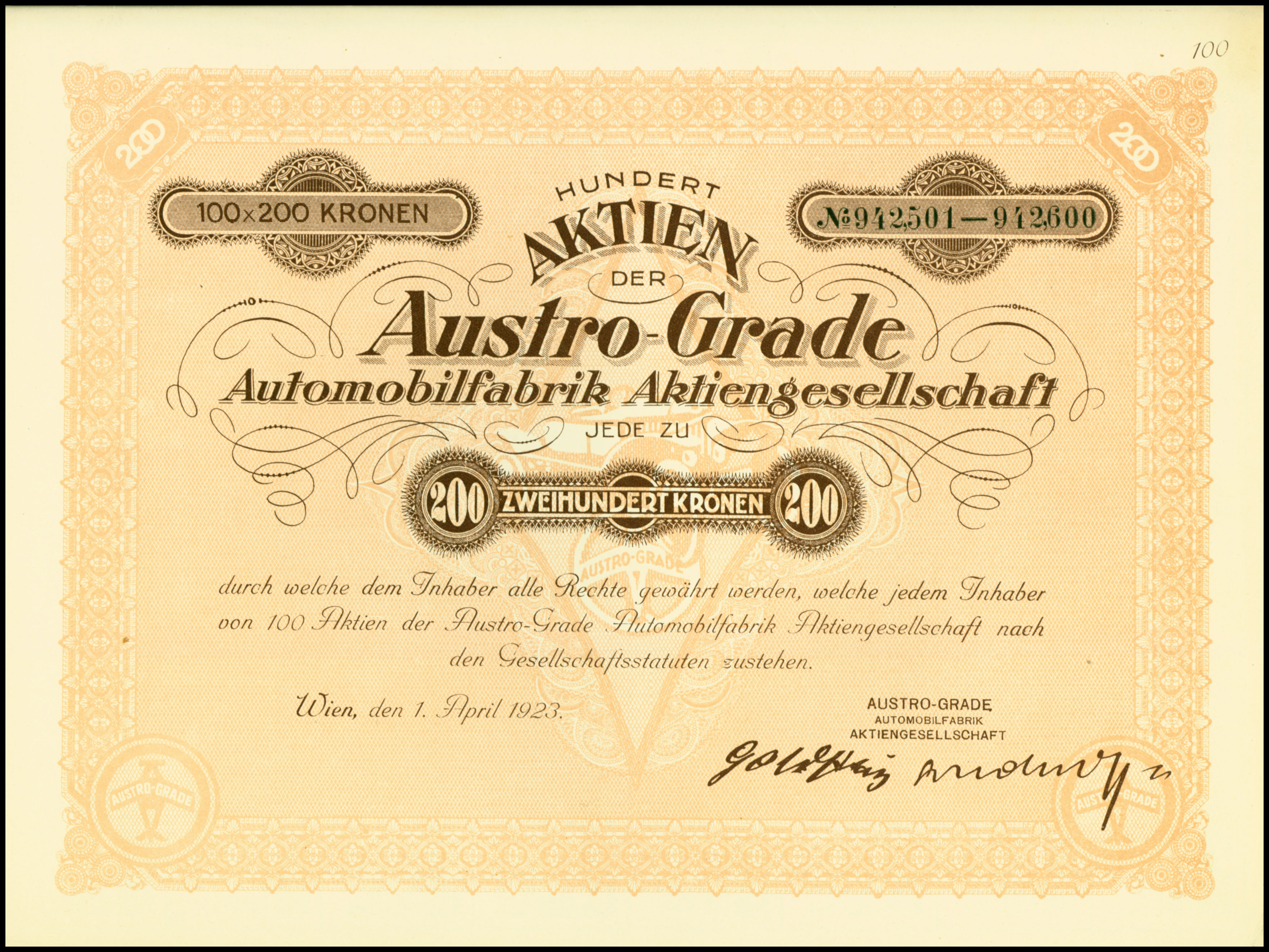 Share of the Austro-Grade Automobilfabrik AG, issued 1. April 1923